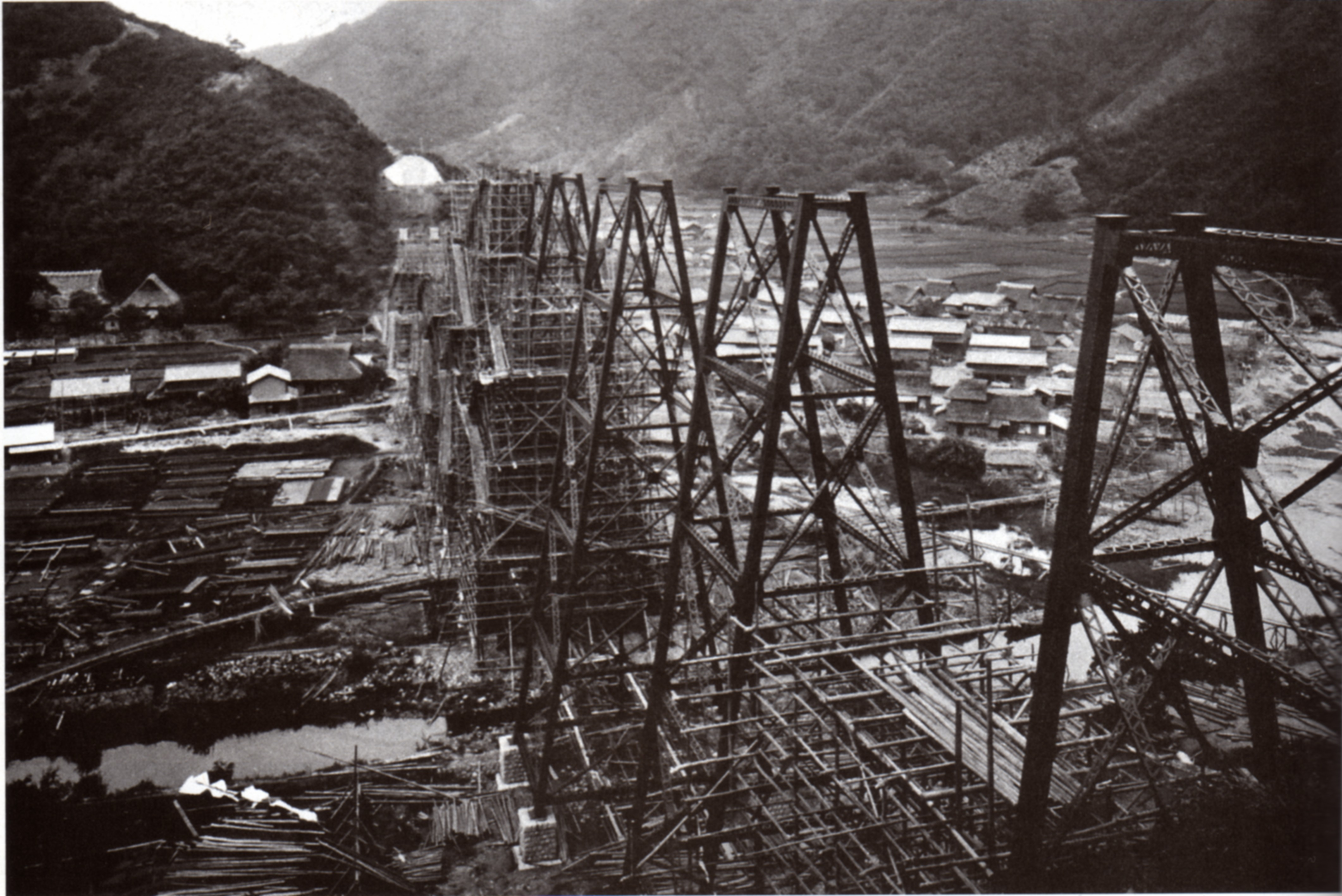 Construction work of piers for Amarube viaduct.